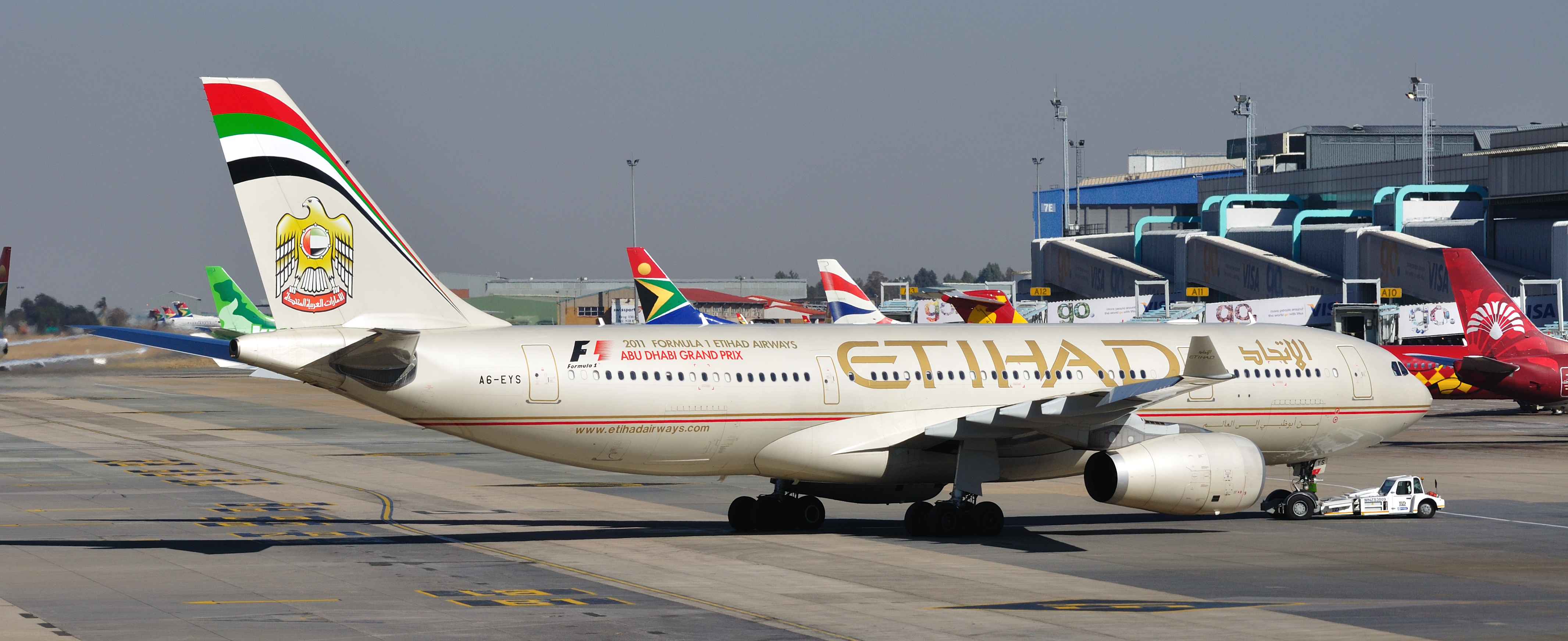 South Africa, spotting at OR Tambo International Airport